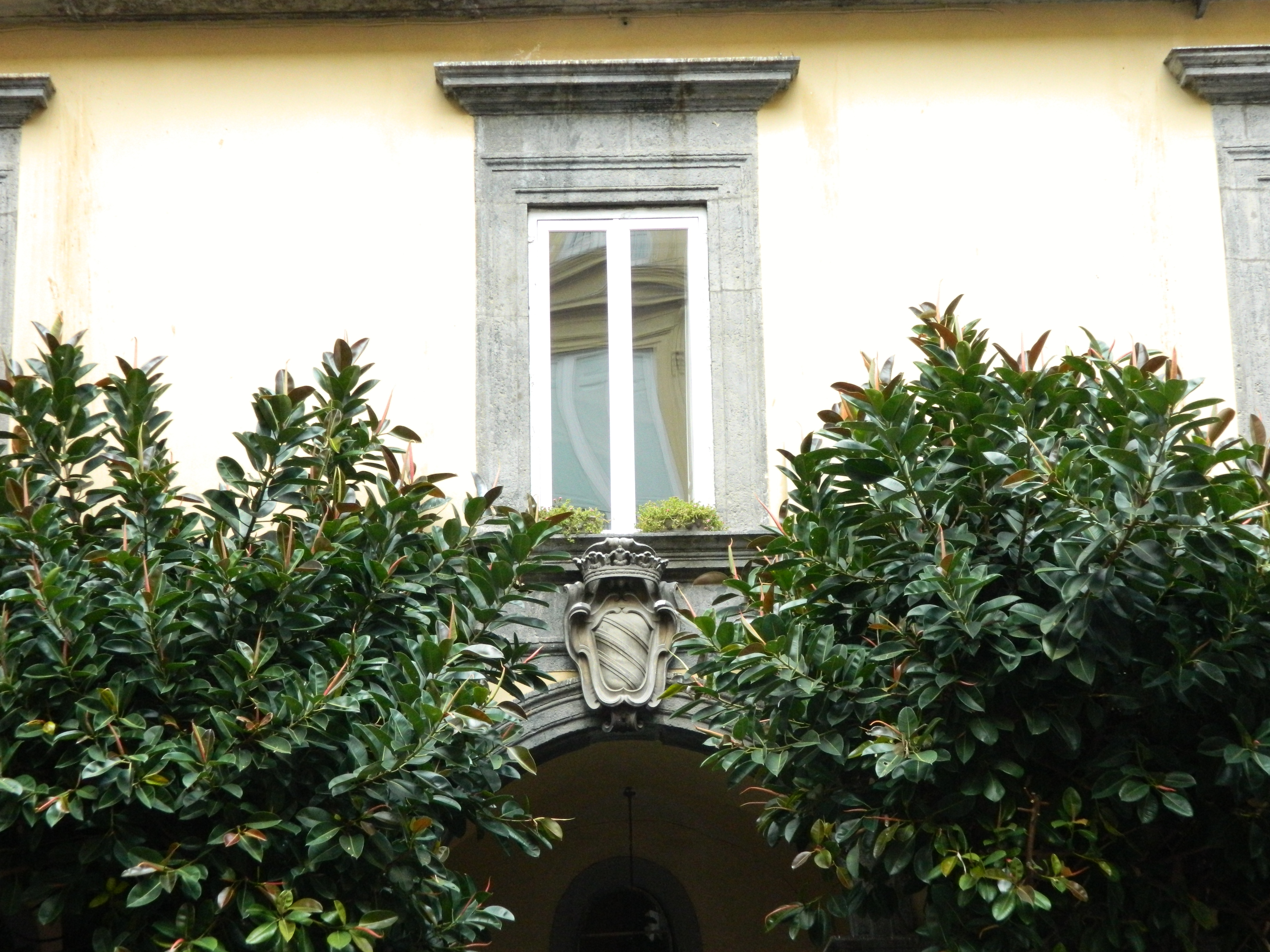 Palazzo Filomarino (Napoli) - Stemma della famiglia sul cortile interno